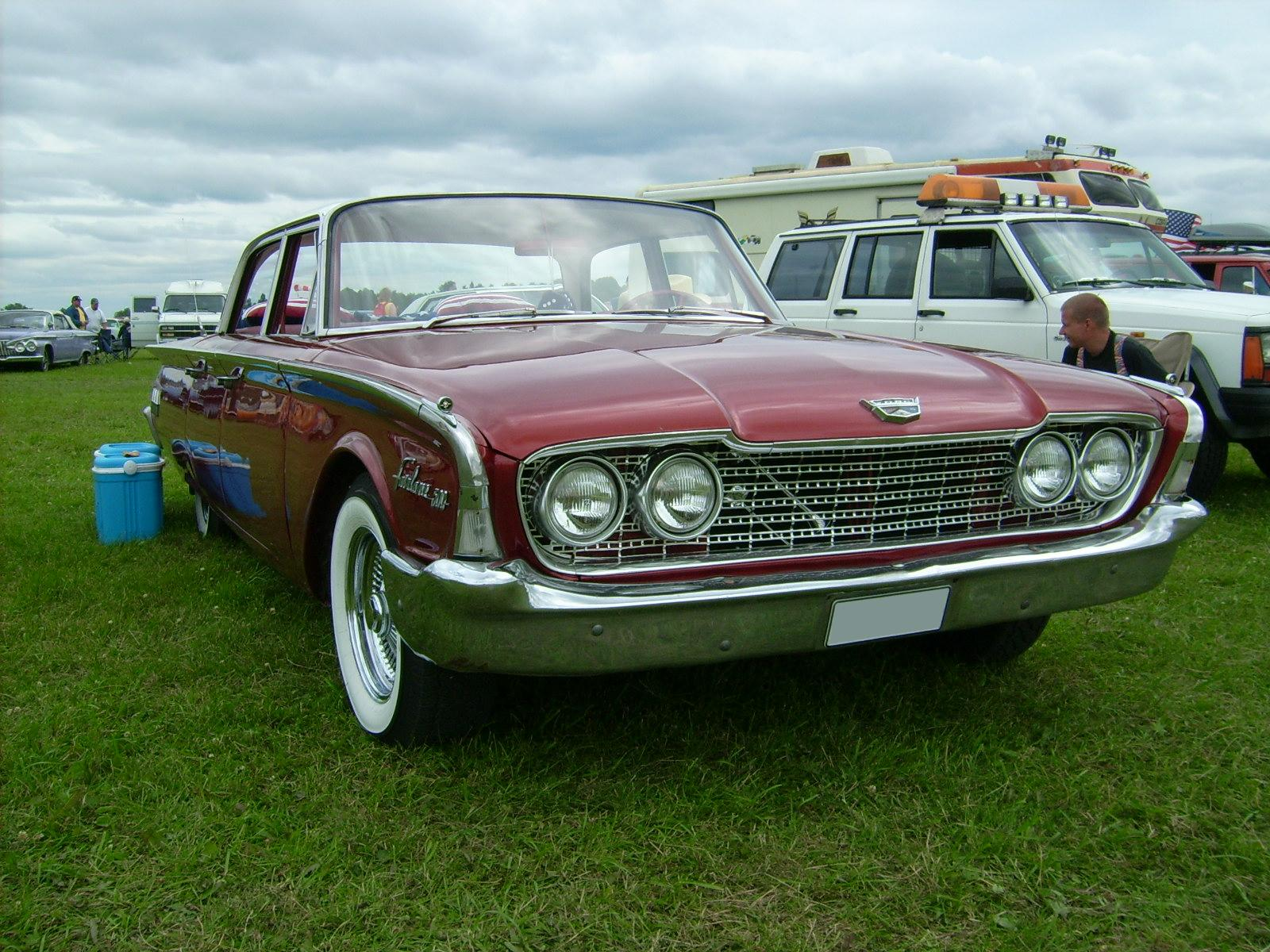 1960 Ford Fairlane 500 Town Sedan at Power Big Meet 2007, Västerås, Sweden